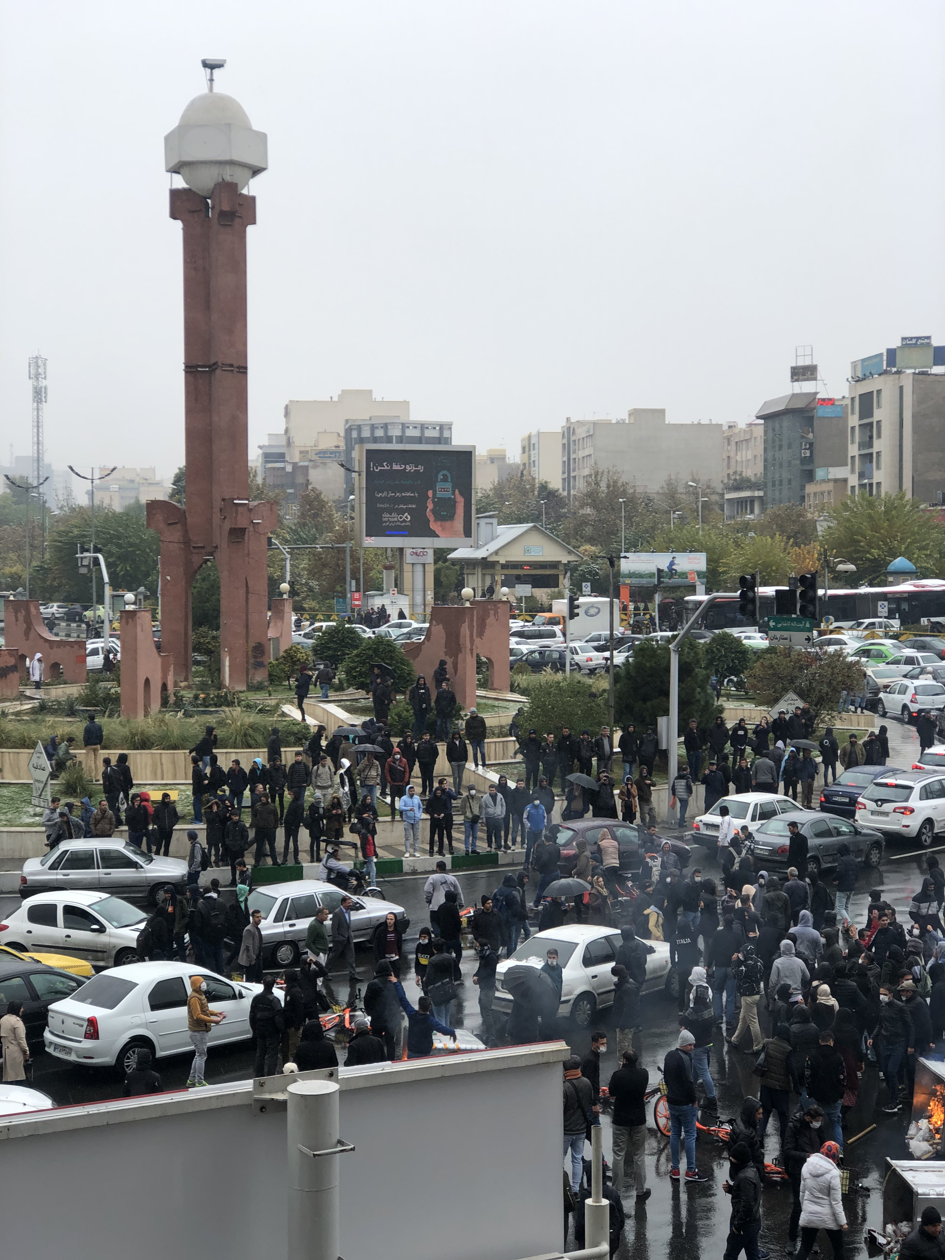 2019 Iranian protests